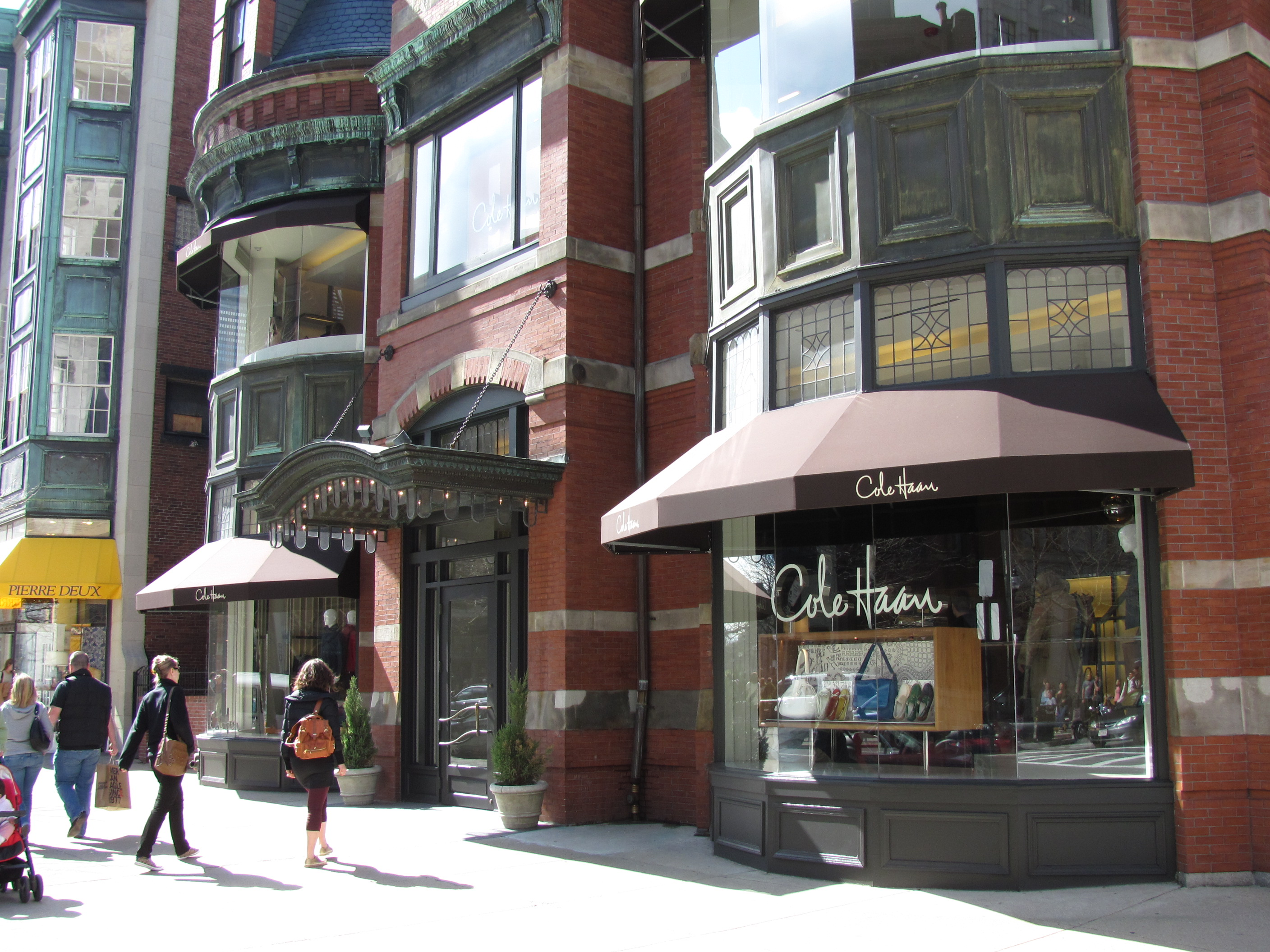 Cole Hann on Newbury Street, Boston Massachusetts